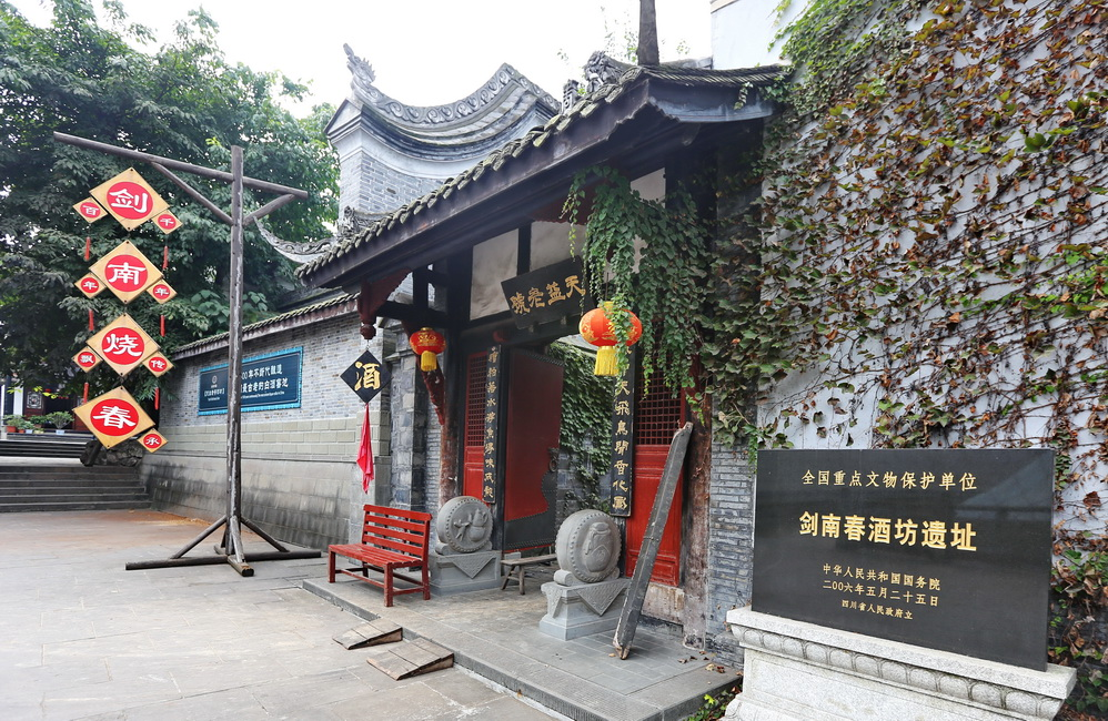 Jiangnanchun Brewery Site